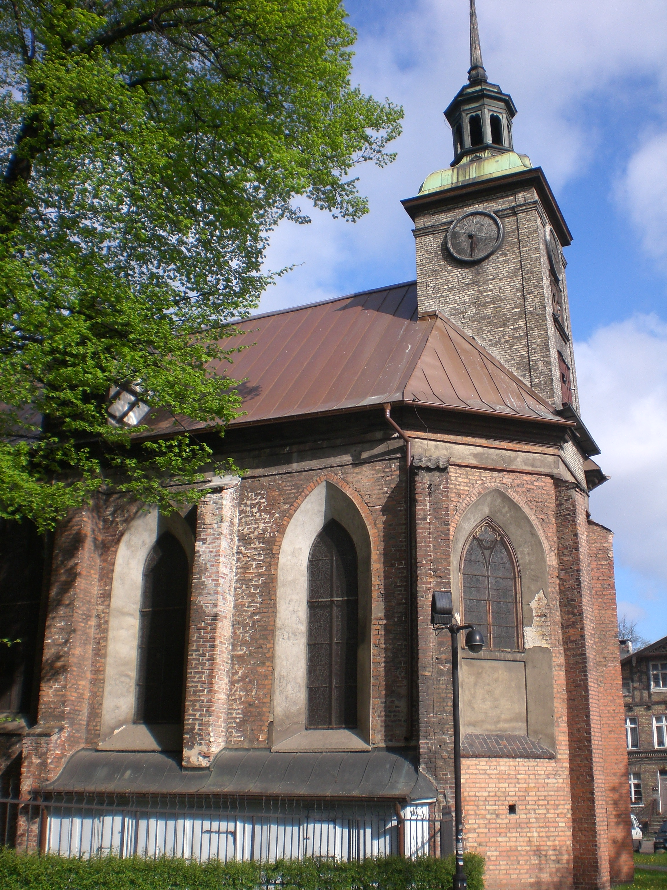 Polish Catholic church of Corpus Christi Gdańsku